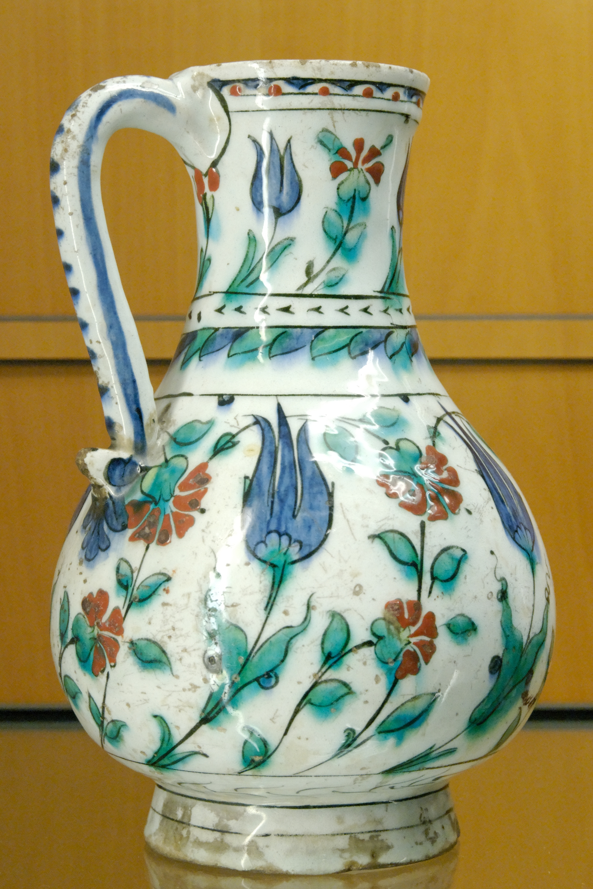 Jug with tulips and carnations. Composite body with underglaze engobe decoration, Iznik, Ottoman Turkey, ca. 1590.